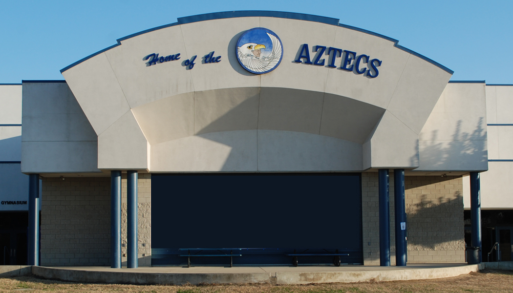 Home of the Aztecs